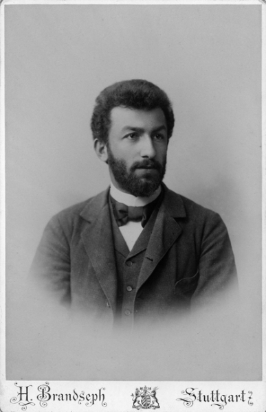 Josef Atabekov, Armenian nobleman, a member of the Second Russian State Duma